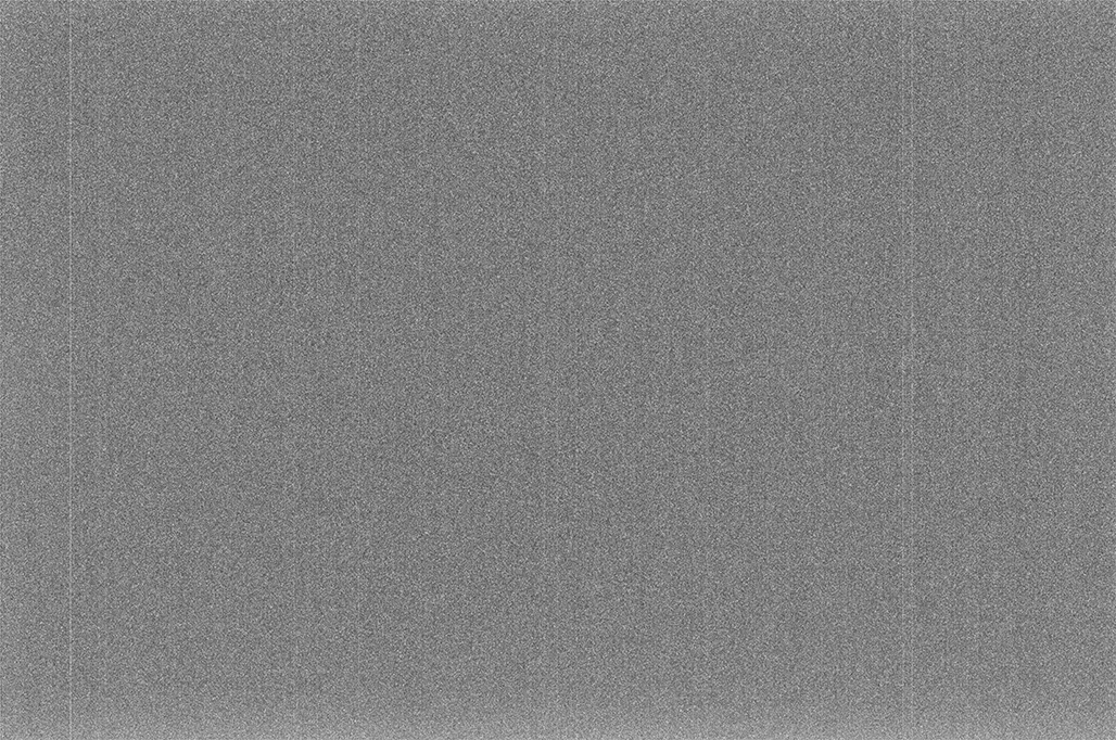 This is a dark frame taken on a Nikon D300. The histogram has been stretched to show what the dark signal looks like.